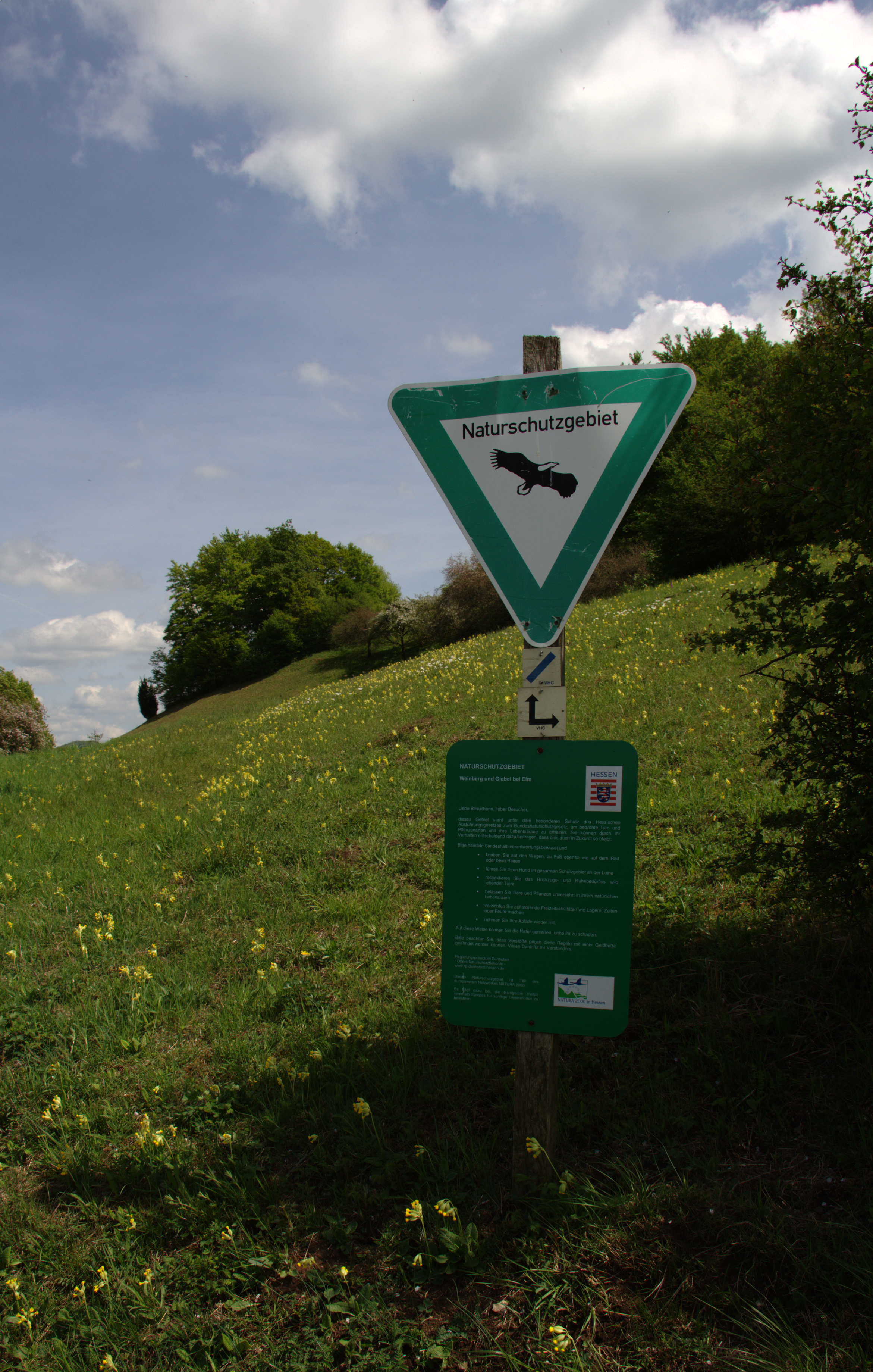 Weinberg und Giebel bei Elm near Elm, Nature Reserve, Schluechtern, Hesse, Germany